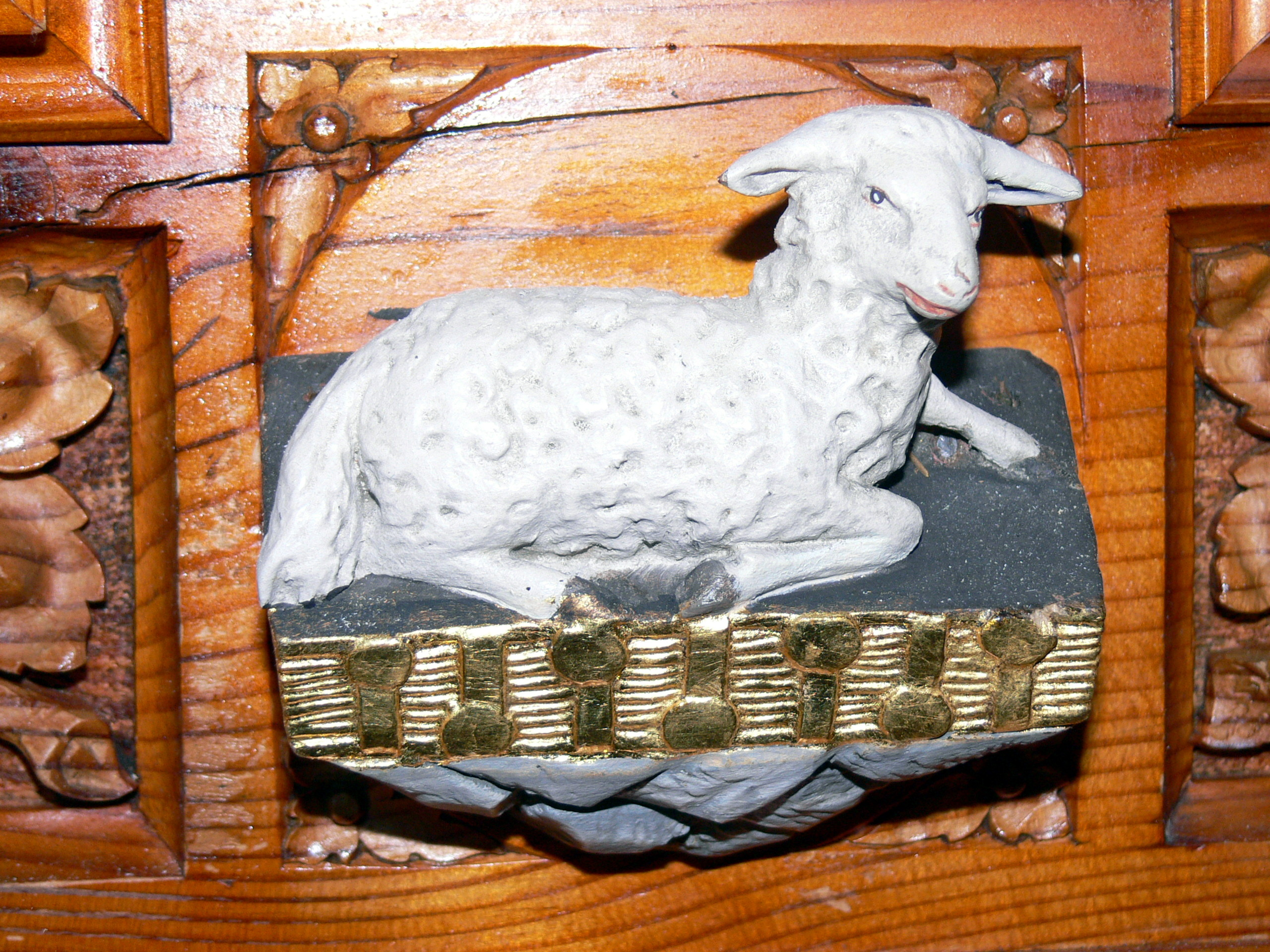 Saint Oswald parish church. Pulpit by Joseph Kepplinger ( 1901 ): Lamb of God sitting on the book of seven seals.